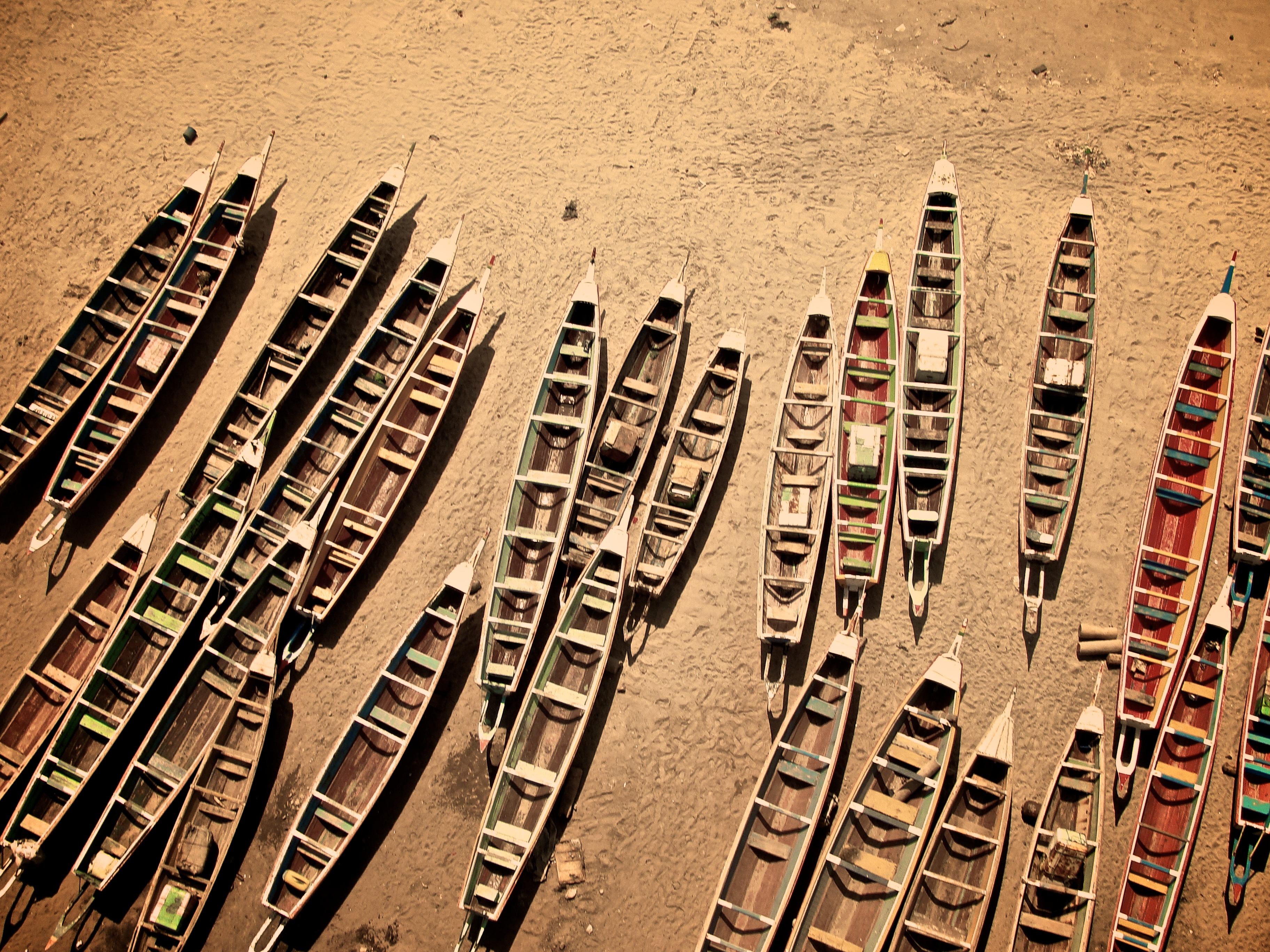 Boats parked at the Soumbedioune fish market for the well deserved break on Sunday. Playing with the settings... Image was captured by a camera suspended by a kite line. Kite Aerial Photography (KAP) 7' Rok